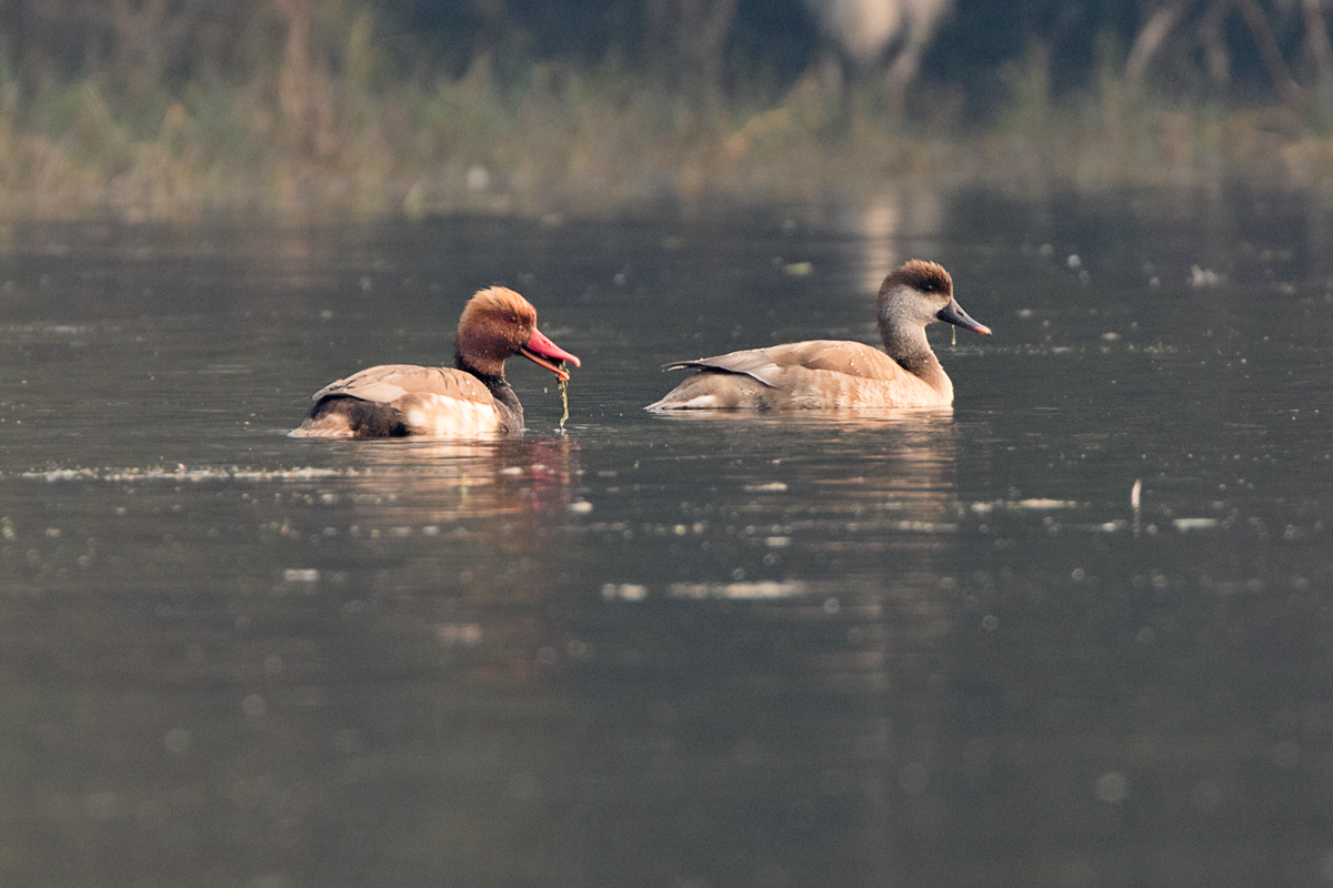 Red Crested Pochard Pair taken in Keoladeo Ghana National Park, Bharatpur